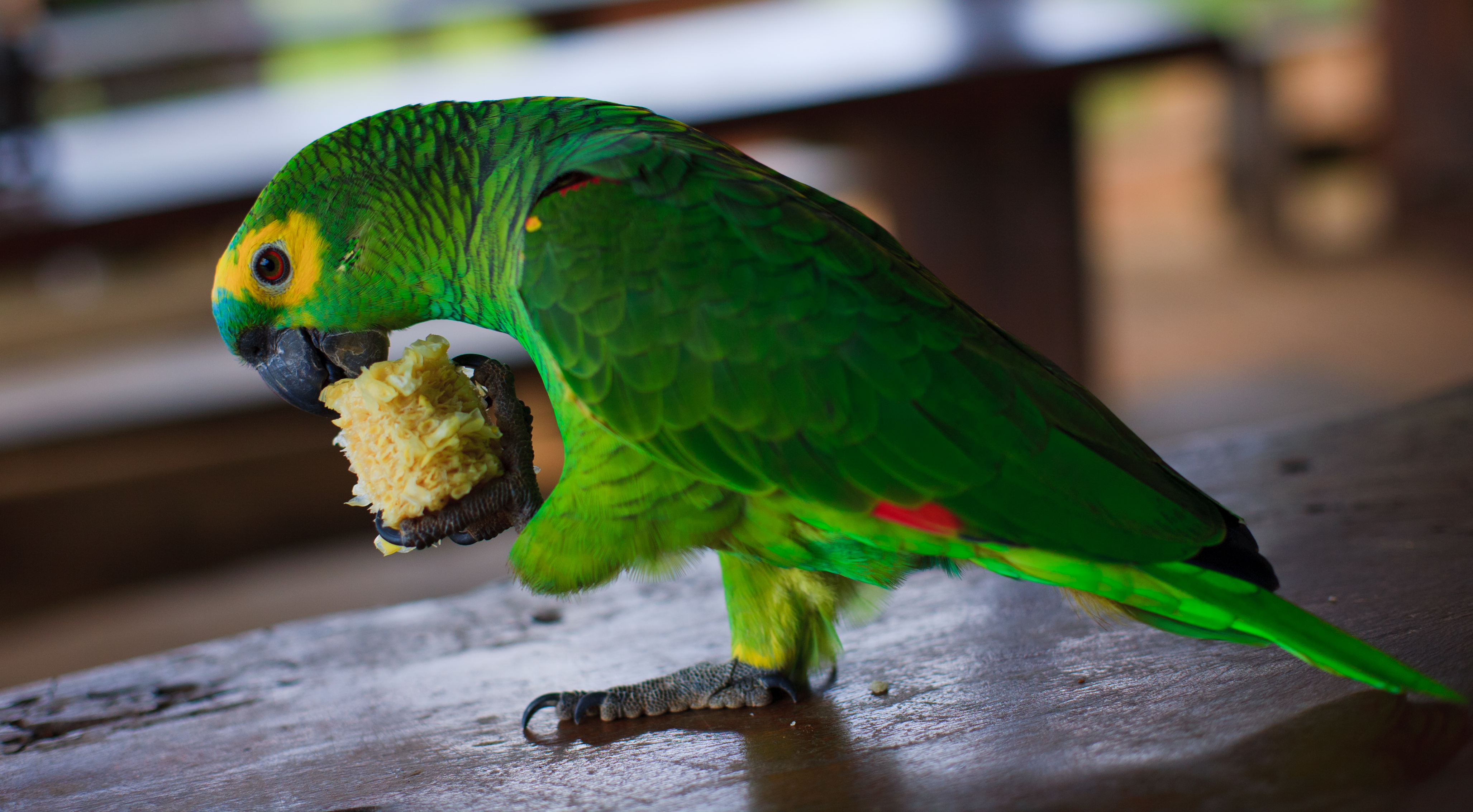 A Blue-fronted Amazon at Chapada Imperial, Brazilian Federal District, Brazil.